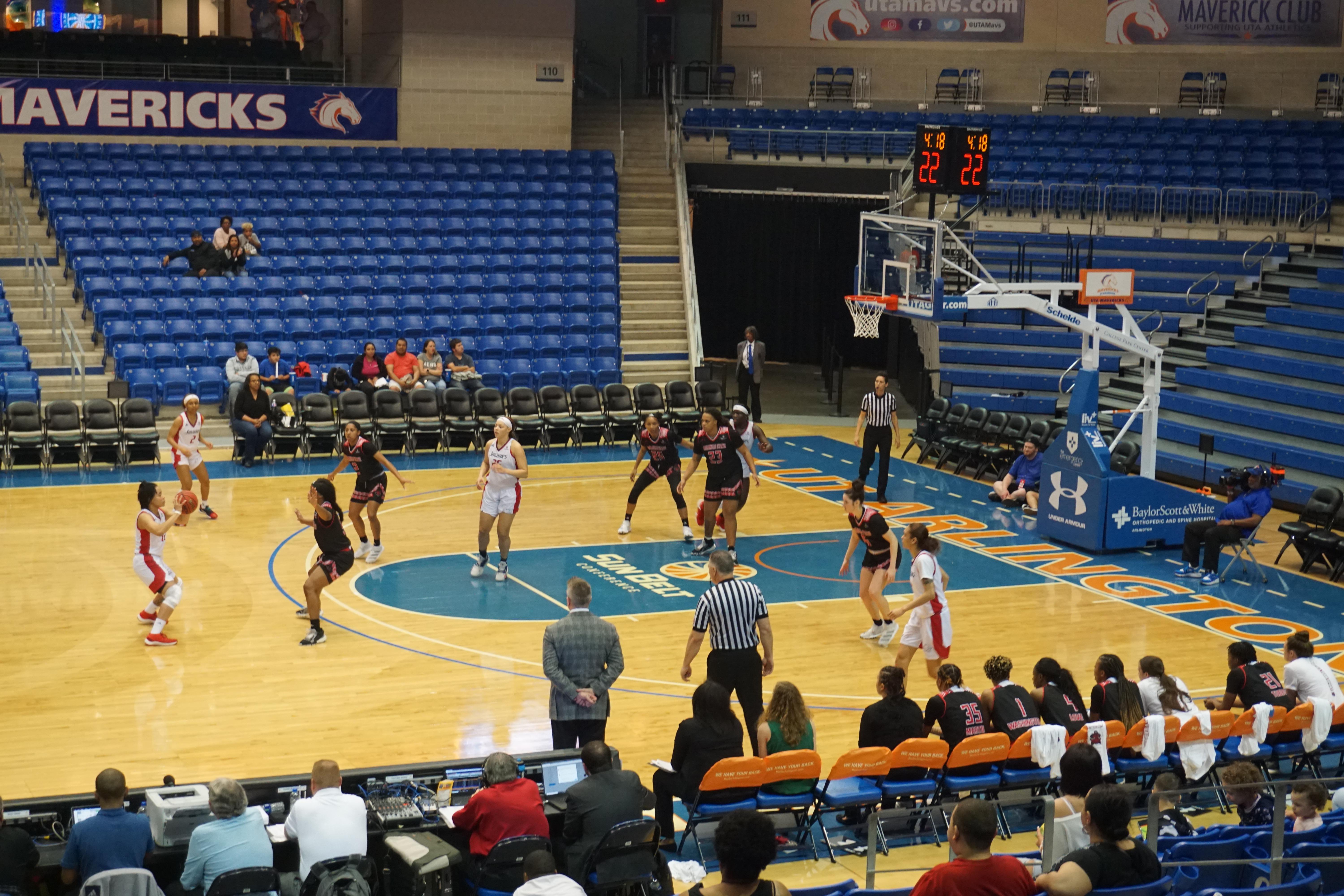 In-game action during the Arkansas State Red Wolves vs. South Alabama Jaguars women's basketball game at the 2020 Sun Belt Conference Women's Basketball Tournament at College Park Center in Arlington, Texas (United States). South Alabama won 82–71.